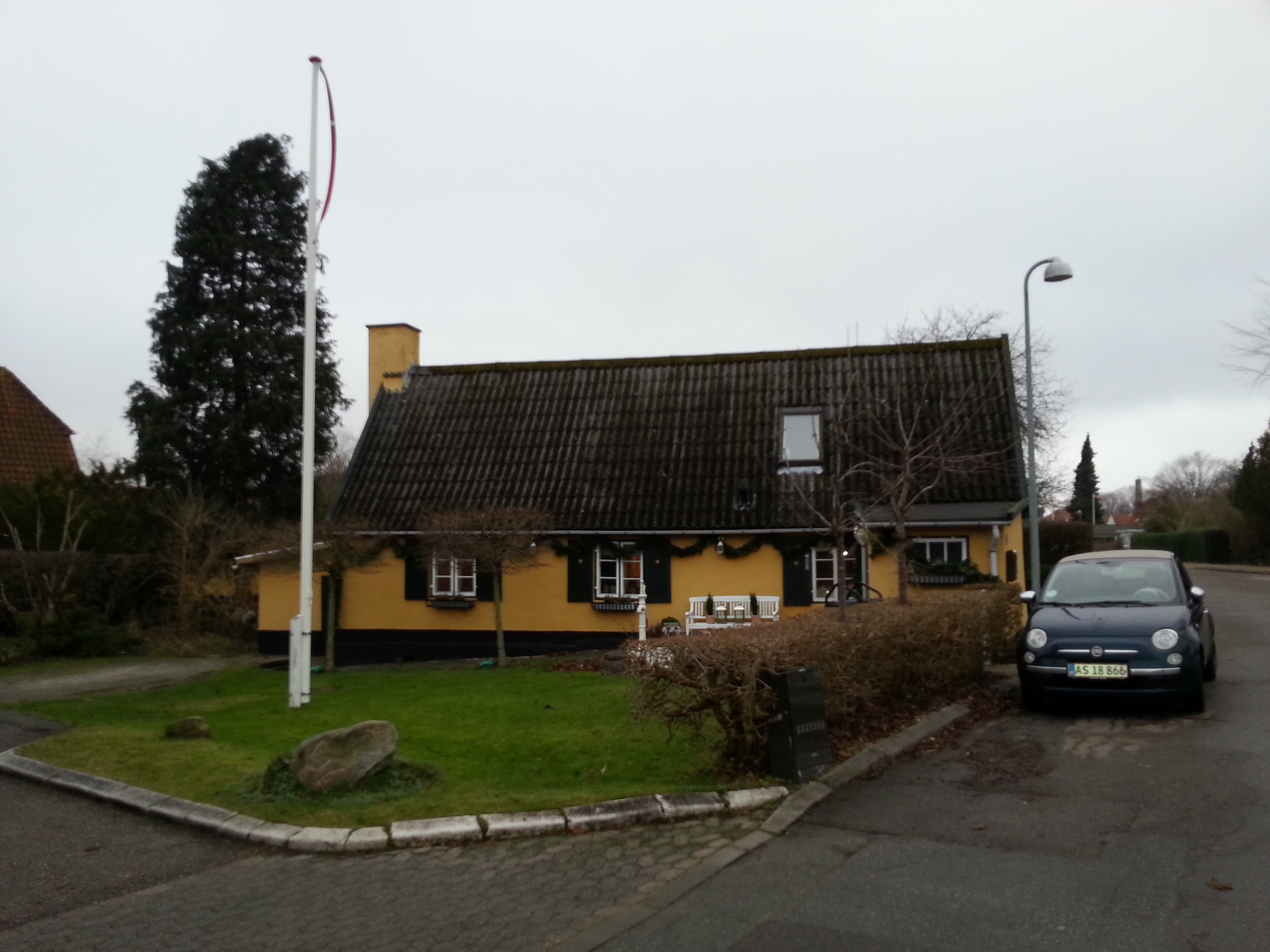 Old farm in Espergærde, Denmark 2